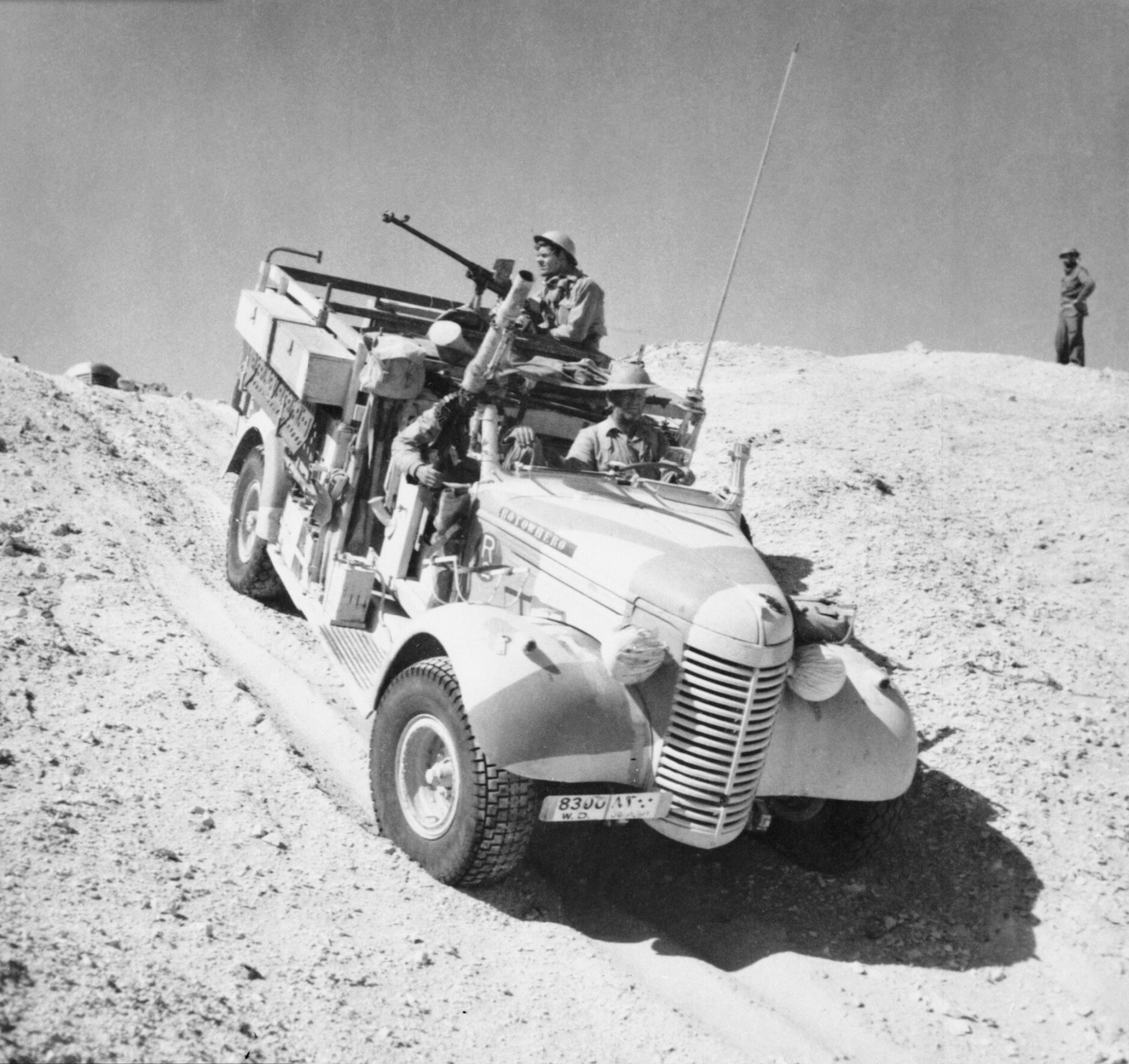 A Long Range Desert Group Chevrolet 30cwt WB truck negotiates the slope of a sand dune during a patrol in the desert, 27 March 1941. The Axis Offensive 1941 - 1942: A Long Range Desert Group truck negotiates the slope of a sand dune during a patrol in the desert.